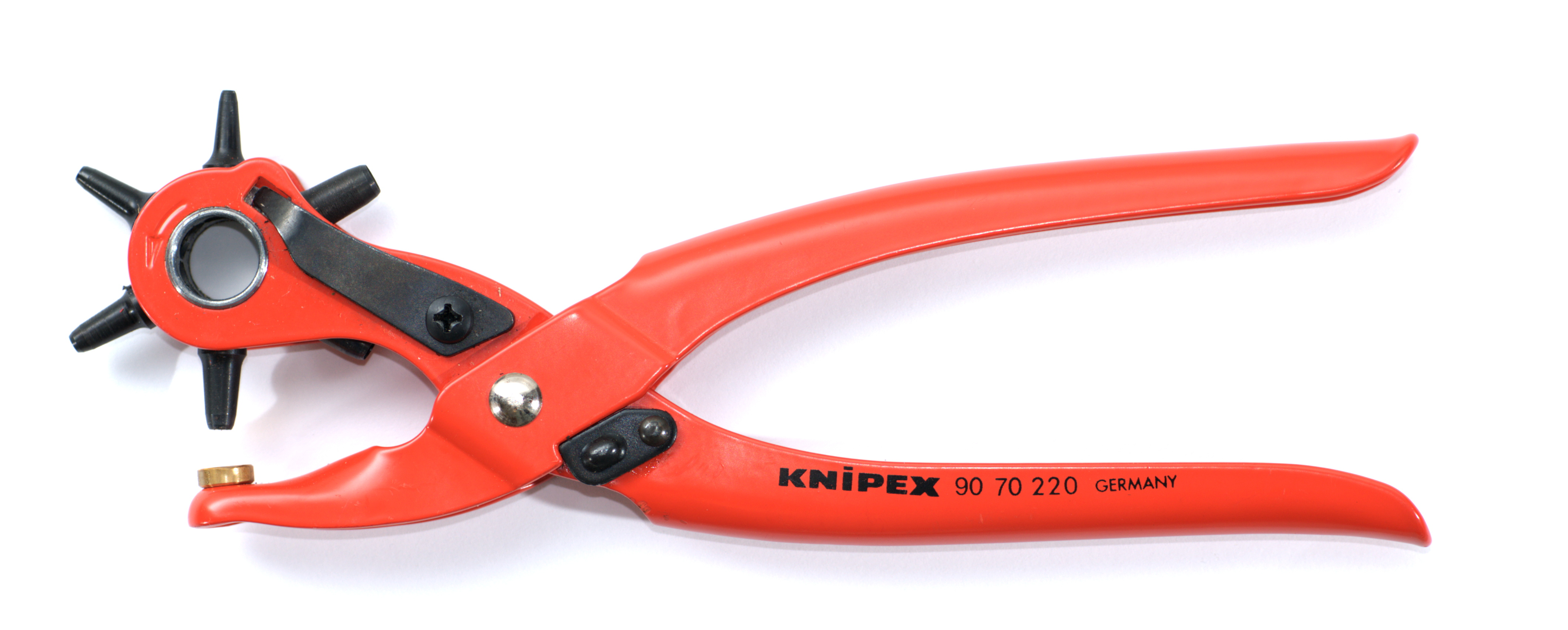 Hole punch plier